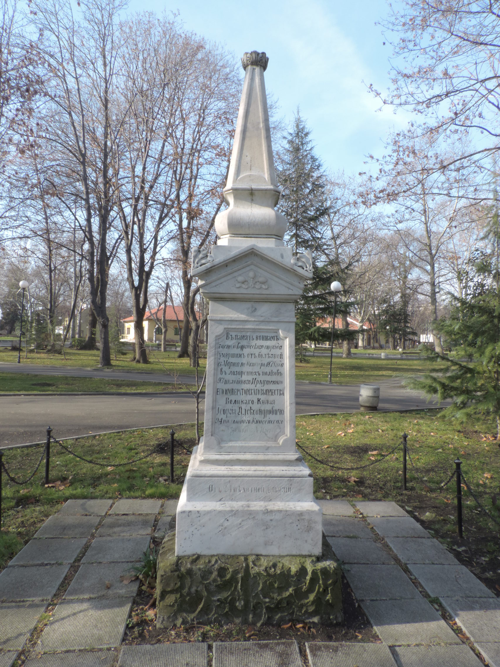 Monument of the soldiers from 93rd Irkutsk Infantry Regiment of Grand Duke George Alexandrovich of Russia. The monument is located in Burgas Sea Park, right next to the Summer Theatre.